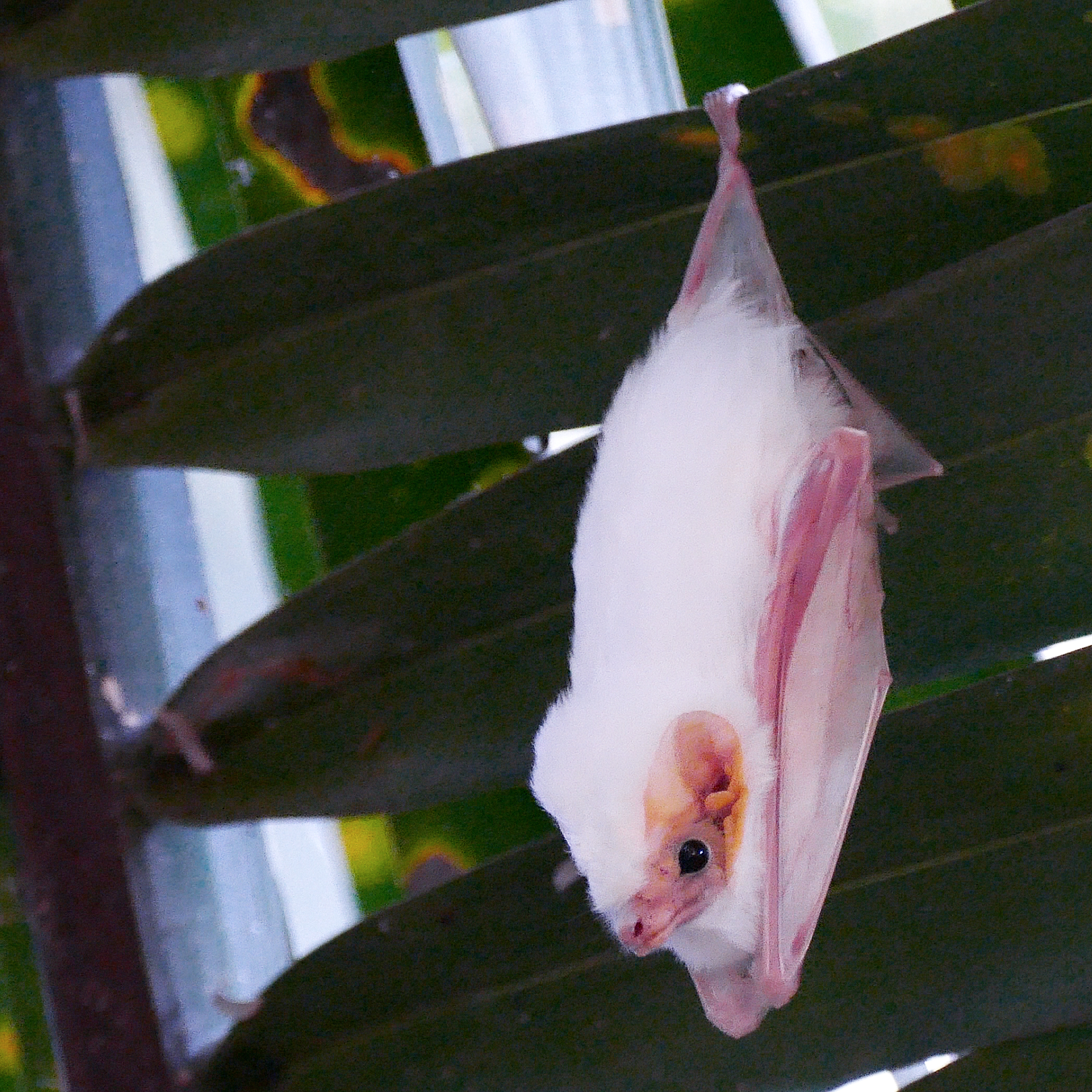 Northern Ghost Bat (diclidurus albus) hanging from a palm leaf